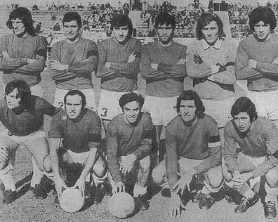 Sportivo Italiano (then called "Deportivo Italiano") squad for the 1974 season. (stand): Della Pica, Cocca, Casal, O.R. López, Pollero, Guardoni. (seated): Cirrincione, Carbajal, Gioia, Massei, Herrera.